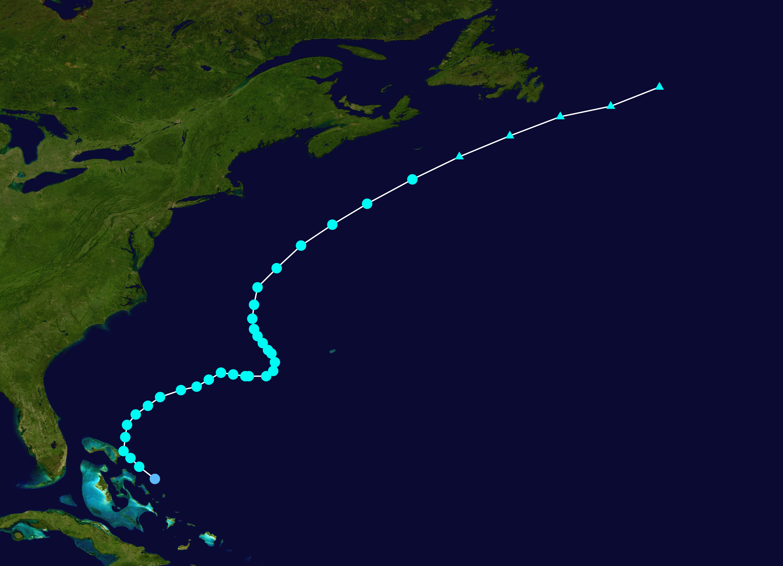 Track map of Tropical Storm Franklin of the 2005 Atlantic hurricane season. The points show the location of the storm at 6-hour intervals. The colour represents the storm's maximum sustained wind speeds as classified in the Saffir–Simpson scale (see below), and the shape of the data points represent the nature of the storm, according to the legend below. Saffir–Simpson scale Tropical depression≤38 mph≤62 km/h Category 3111–129 mph178–208 km/h Tropical storm39–73 mph63–118 km/h Category 4130–156 mph209–251 km/h Category 174–95 mph119–153 km/h Category 5≥157 mph≥252 km/h Category 296–110 mph154–177 km/h Unknown Storm type Tropical cyclone Subtropical cyclone Extratropical cyclone / Remnant low / Tropical disturbance / Monsoon depression